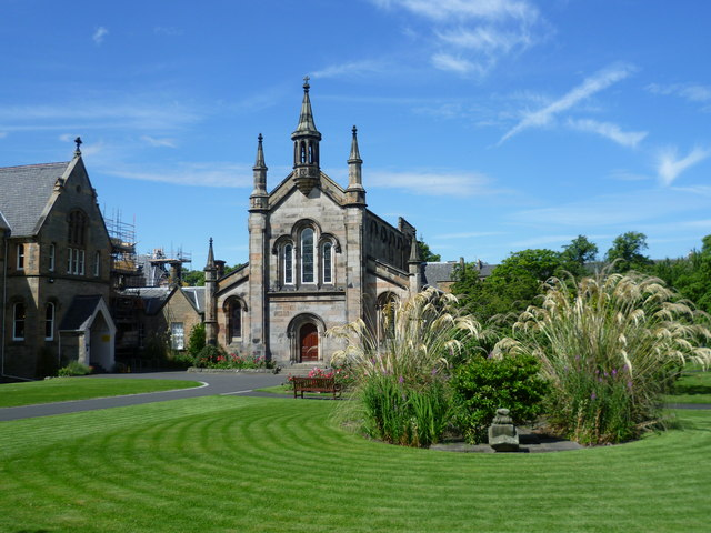 St Margaret's Chapel, Whitehouse Loan